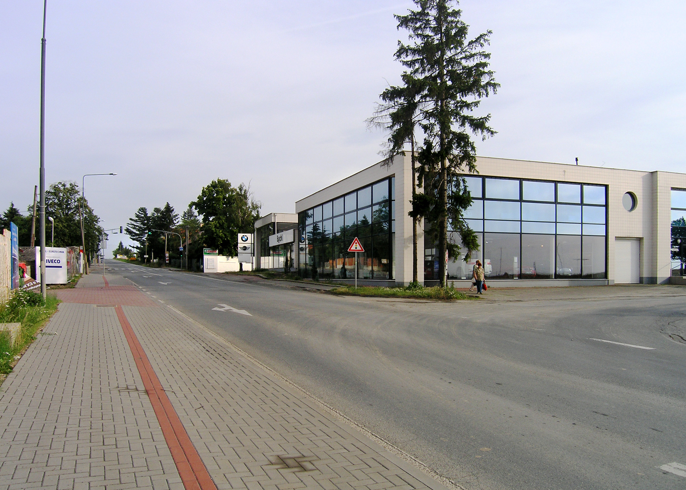 Local part Šátalka in Vestec, Czech Republic